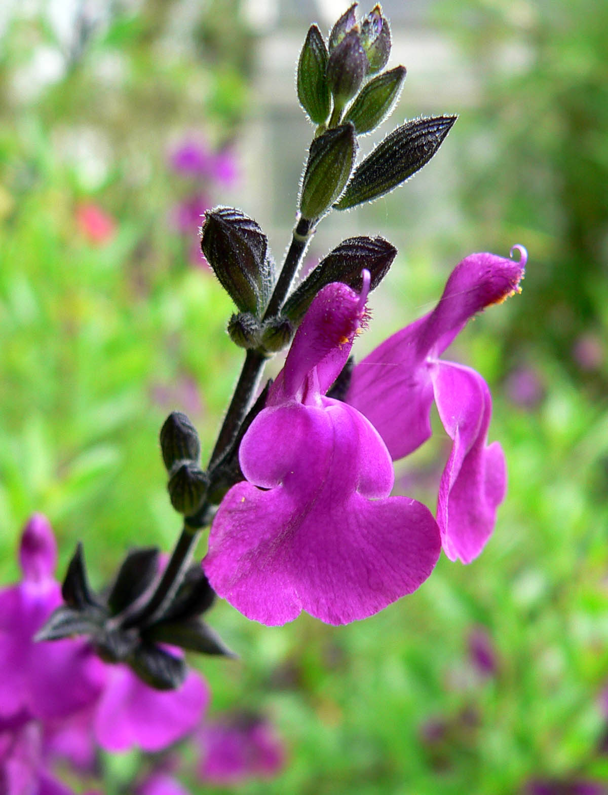 Photo of Salvia muelleri at the University of California Botanical Garden